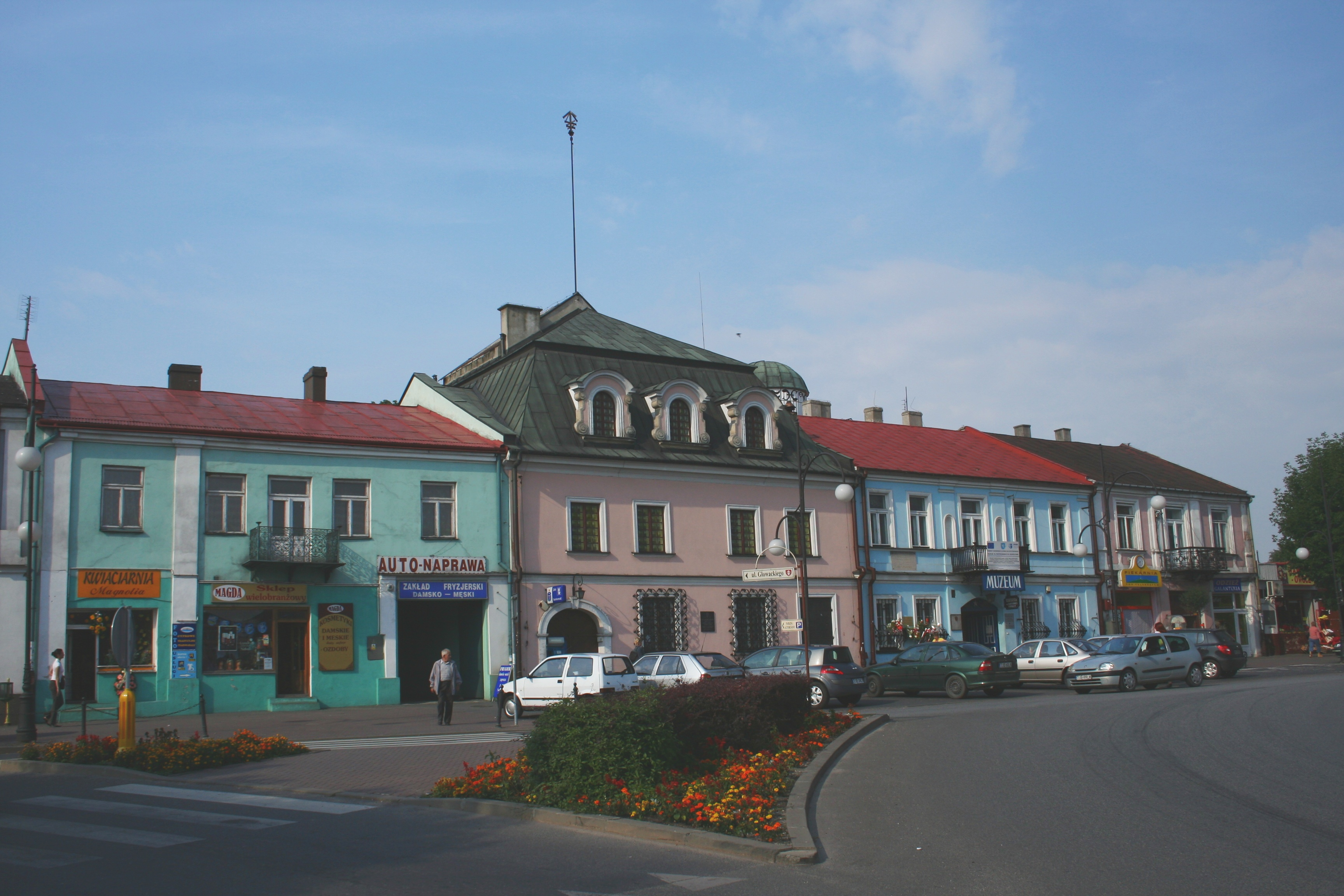 Jędrzejów, Poland. Old houses on Market Square.